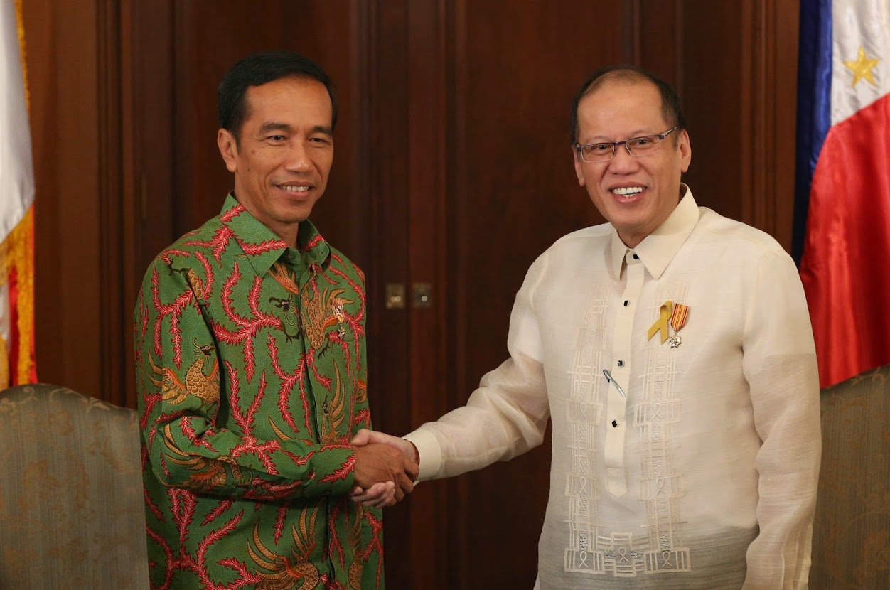 President Benigno S. Aquino III shakes hand with His Excellency Joko Widodo, President of the Republic of Indonesia, during the courtesy call at the Music Room of the Malacañan Palace on Monday (February 09). This is President Widodo’s first State Visit to the Philippines. The Philippines and Indonesia enjoy excellent bilateral relations and cooperate extensively in numerous areas. (Photo by Ryan Lim / Malacañang Photo Bureau)